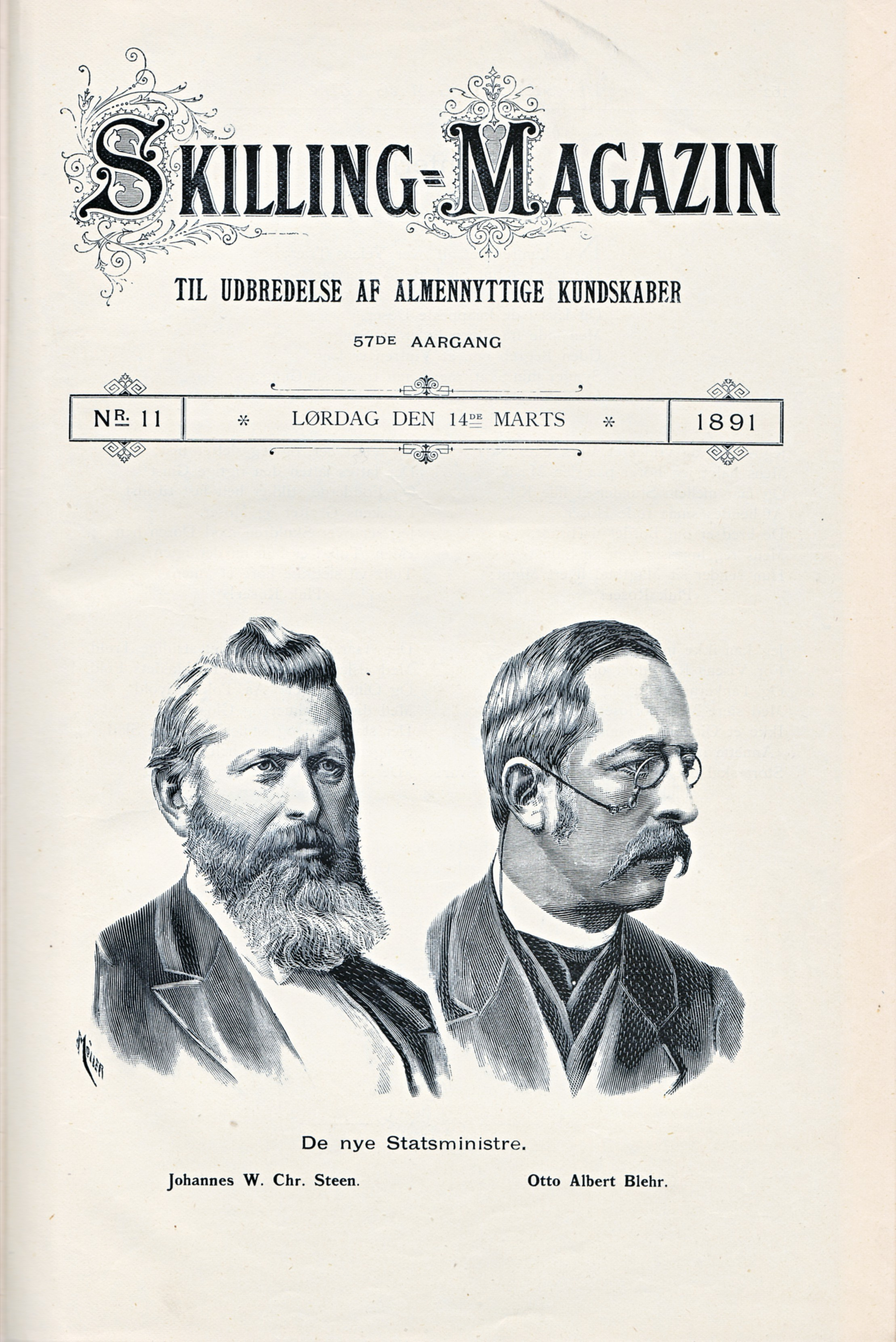 Front page of Skilling-Magazine, Norwegian weekly periodical, dated 14 March 1891, with engraved portraits of two Norwegian Prime Ministers (Johannes Steen and Otto Albert Blehr) by Albert Møller (1864–1922).